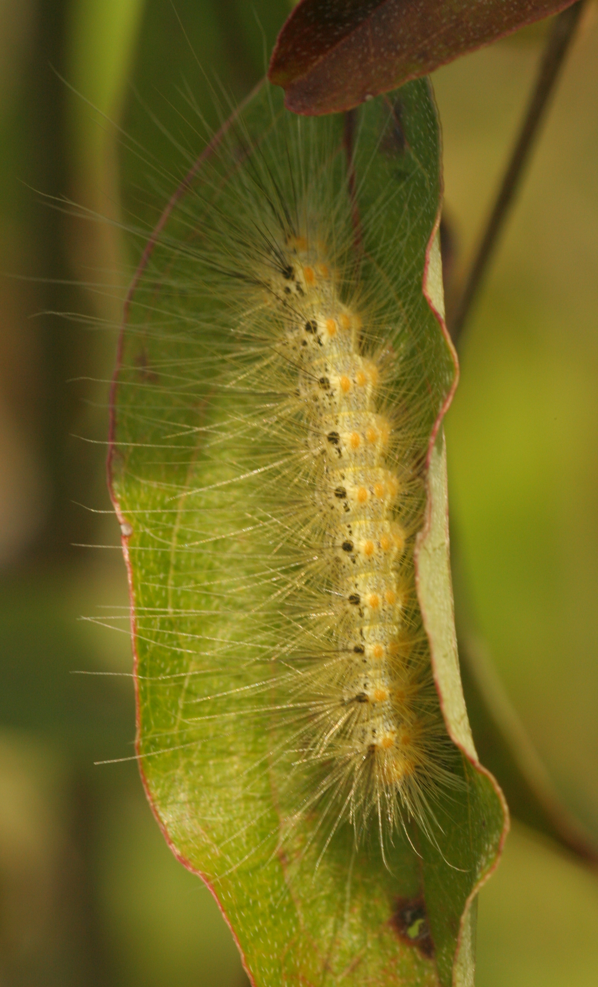 Hyphantria cunea fall webworm, late instar